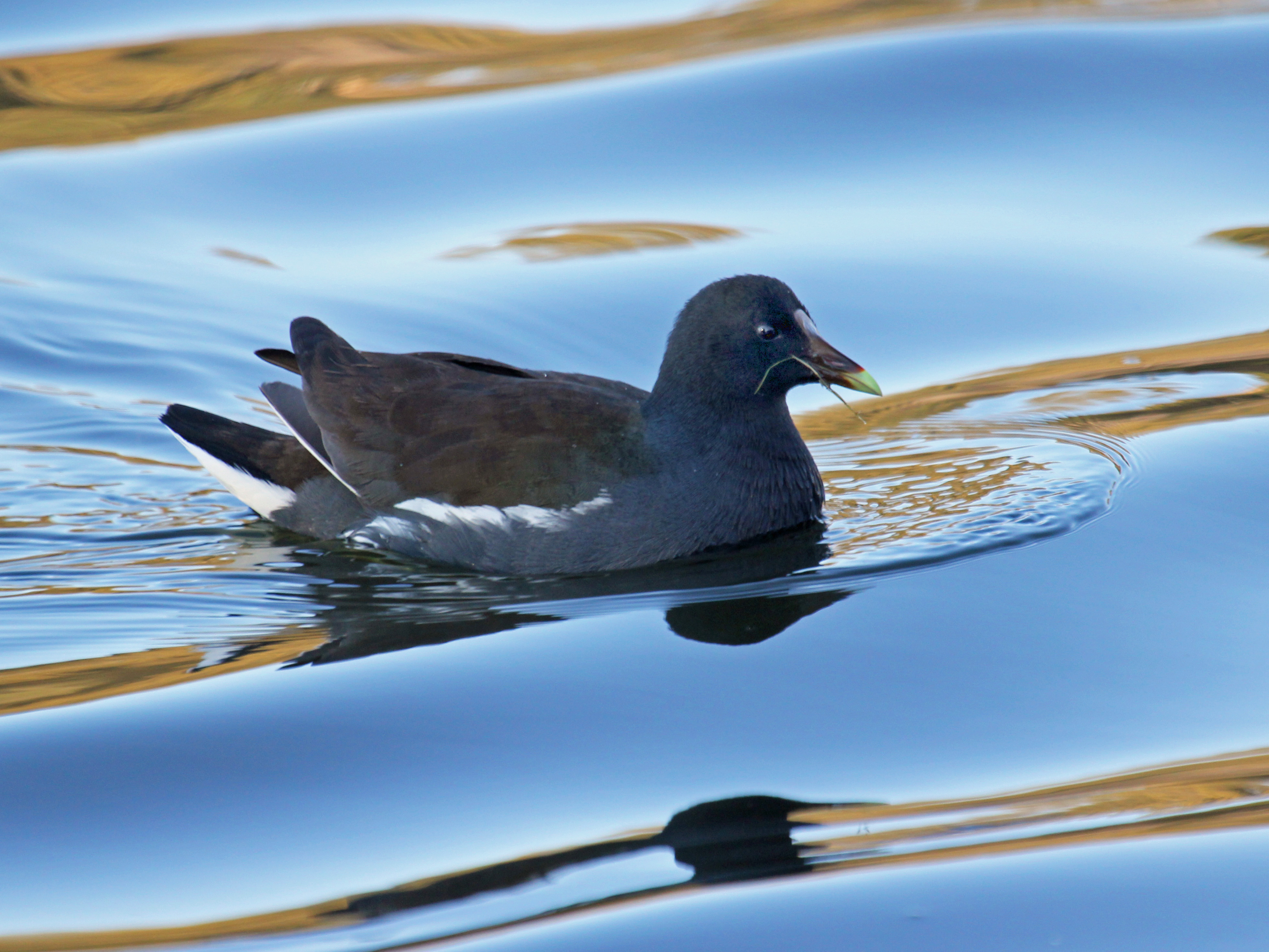 Common Gallinule Gallinula galeata at Twin Lakes in Sunset Beach, North Carolina